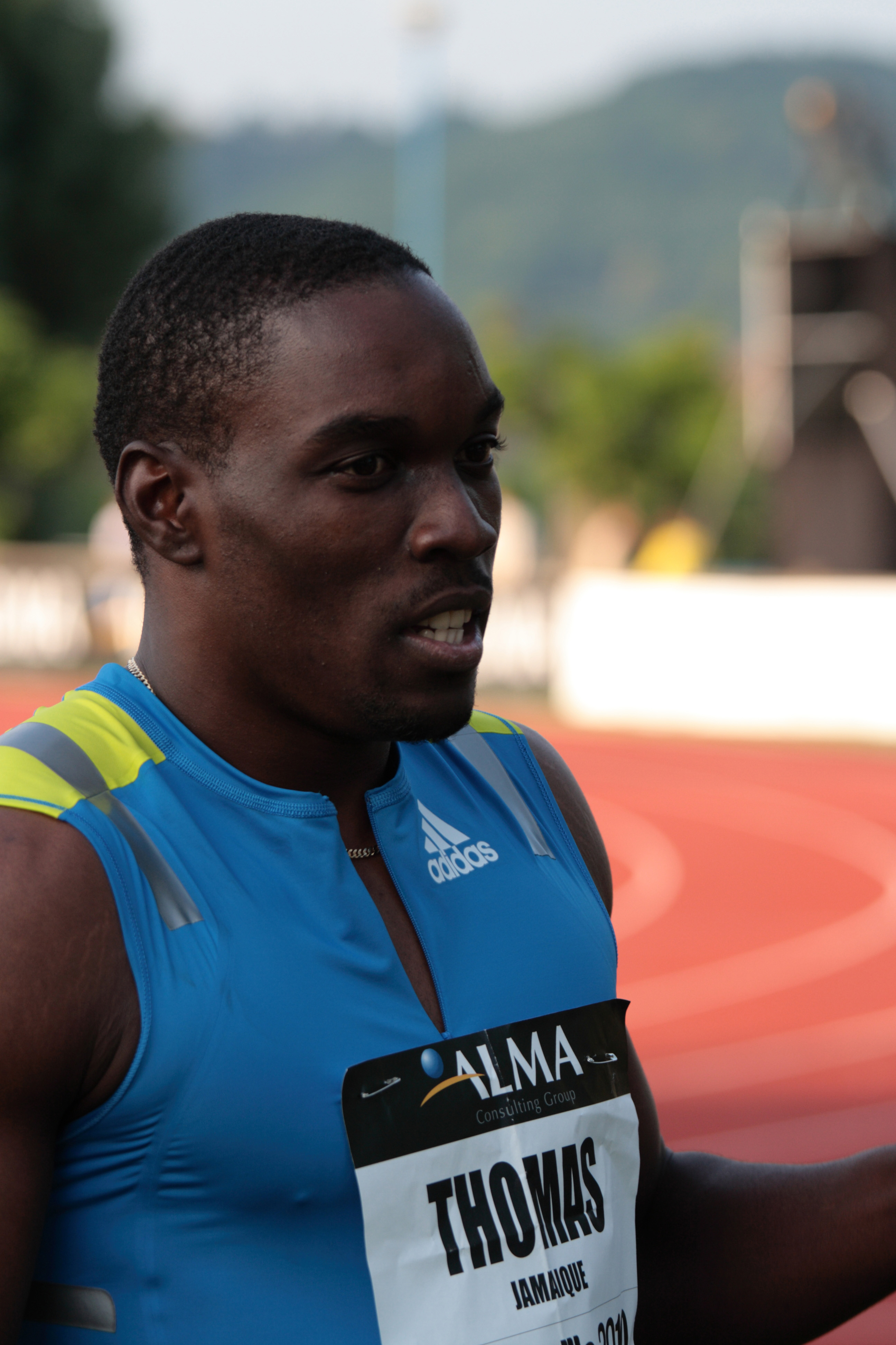 Dwight Thomas at Sotteville-lès-Rouen International Meeting (2010)